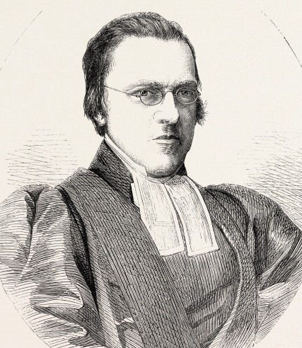 The Hon. and Rev. Samuel Waldegrave, Bishop of Carlisle: illustration from The Illustrated London News of 11 November 1860